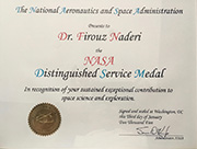 This is a photograph of the certification Dr. Naderi received when he was awarded NASA's highest award, the Distinguished Service Medal.